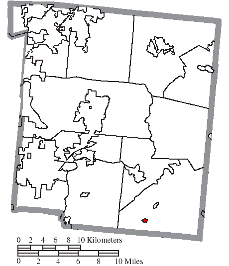 Map of the municipal and township boundaries of Warren County, Ohio, United States, as of the 2000 census, with the location of the village of Pleasant Plain highlighted. Township borders are shown only in unincorporated areas in order to differentiate incorporated and unincorporated areas more clearly.